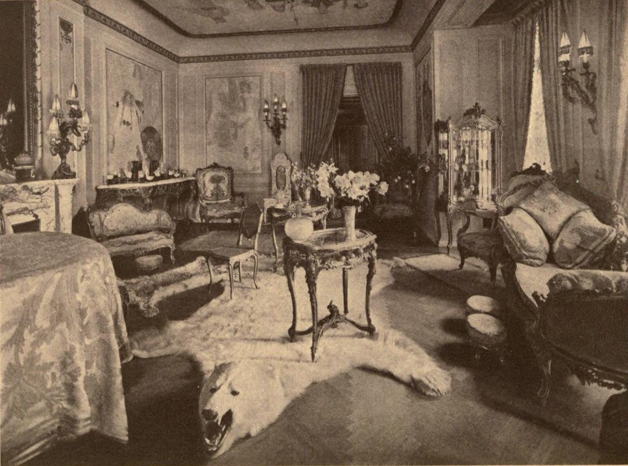 Grigsby house, music room, January 22, 1912 auction catalogue, frontispiece.